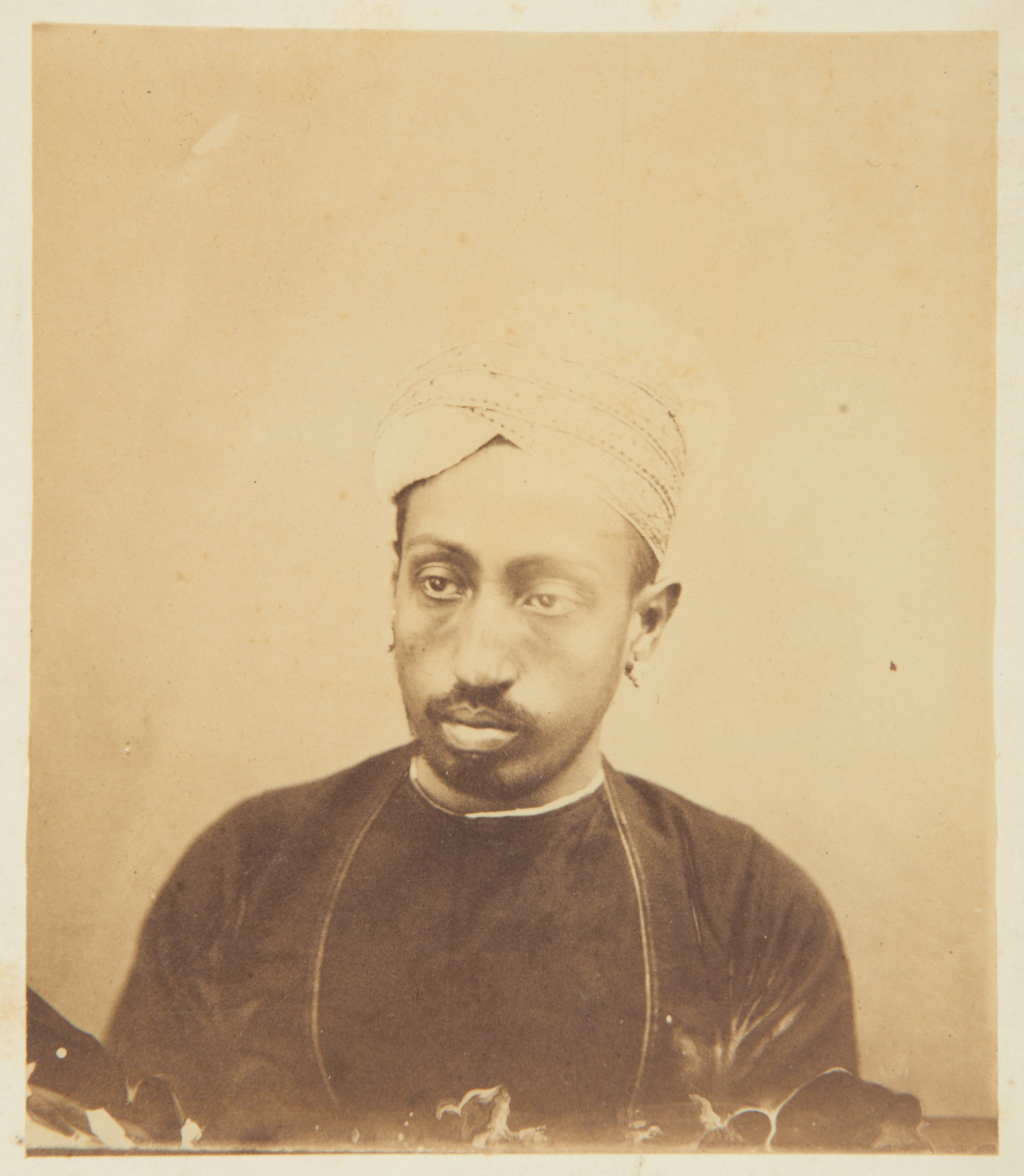 Photograph of Visakham Thirunal, First Prince of Travancore and later The Maharaja in a head and shoulders portrait. He wears a turban and faces three-quarters left.